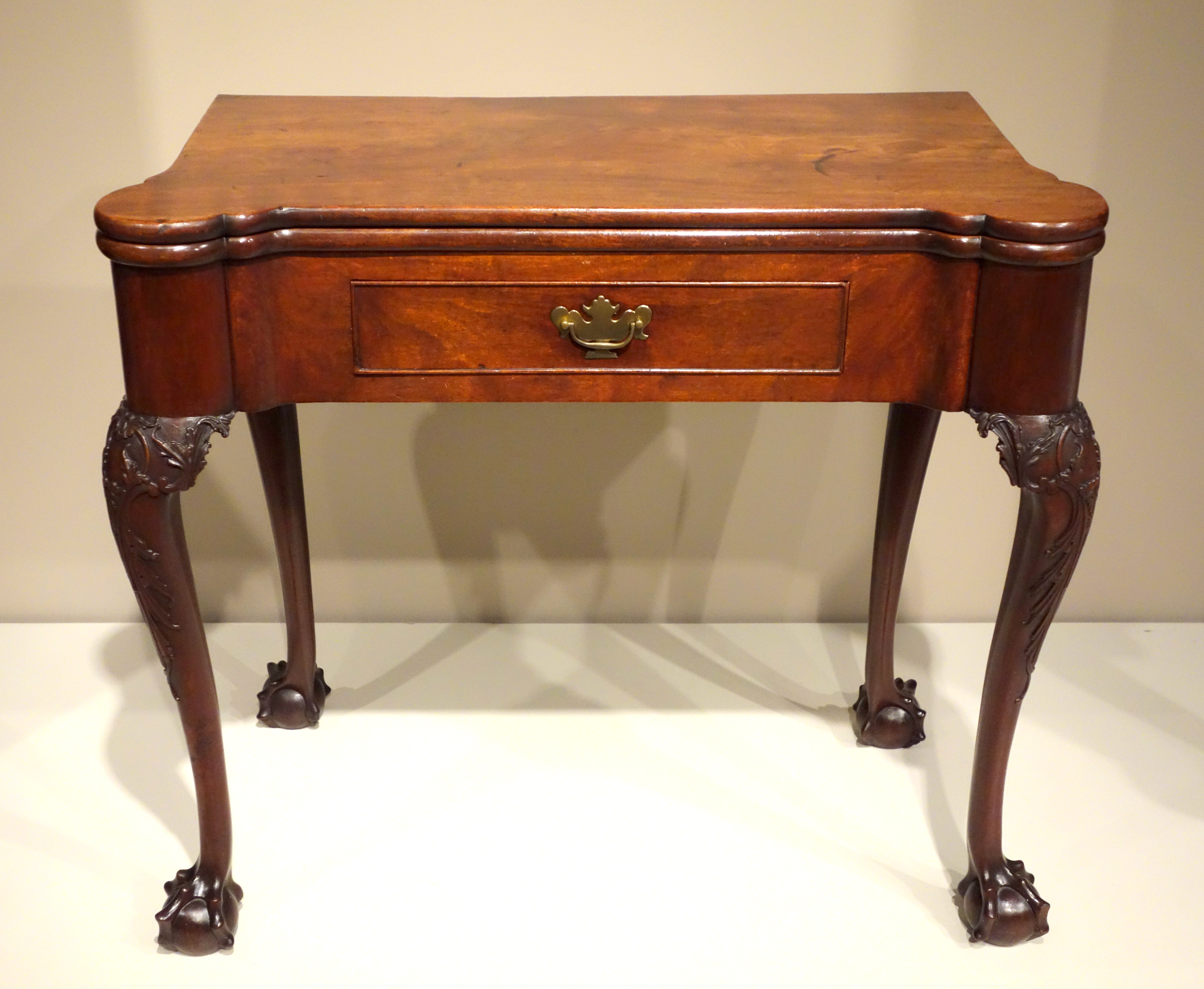 Exhibit in the Winterthur Museum, New Castle County, Delaware, USA. This work is in the public domain because the artist died more than 70 years ago.